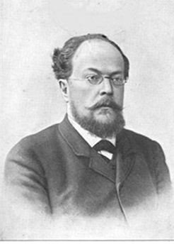 Politician of Russian Empare N. D. Sergeevsky